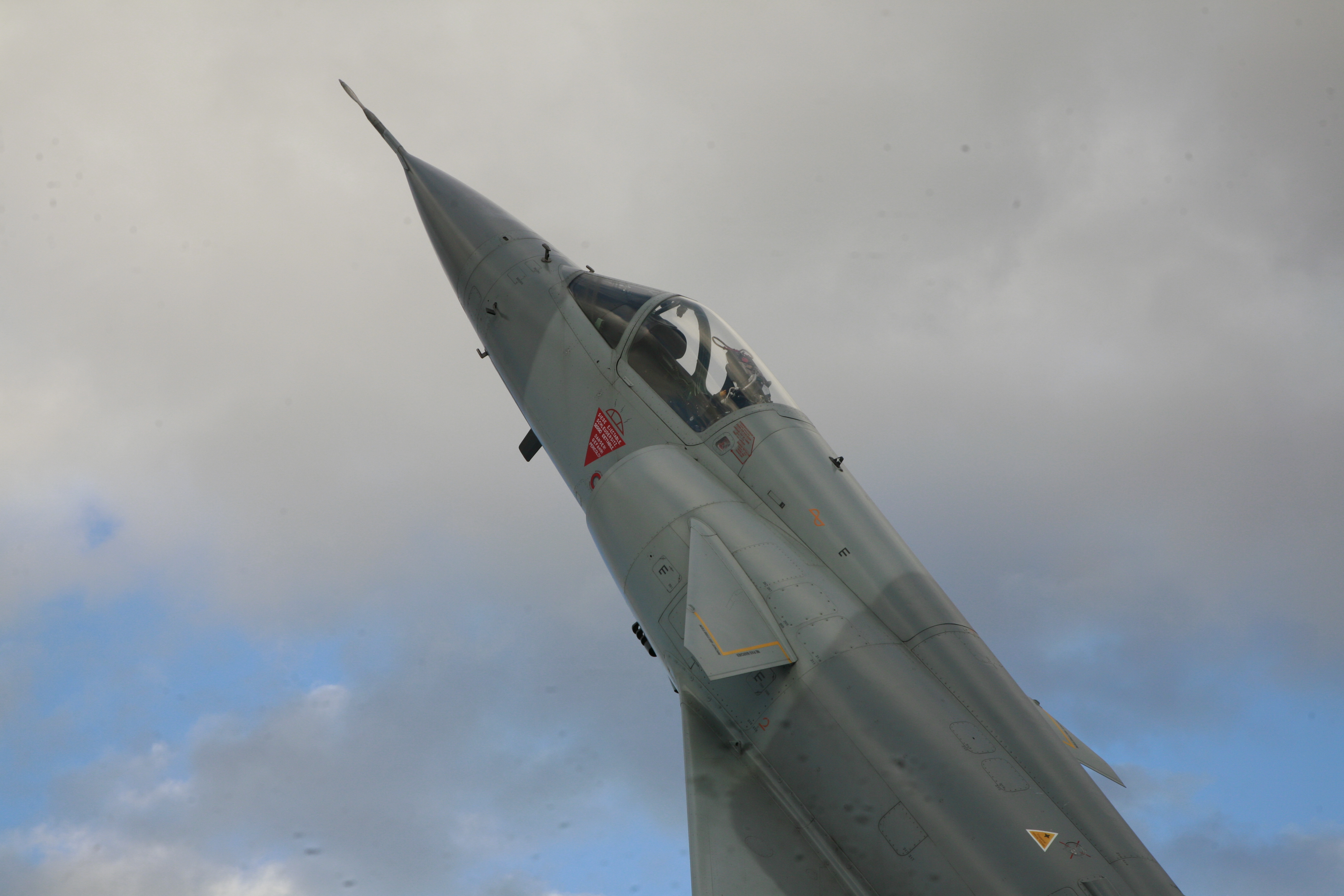 Dassault Mirage III of the Swiss Air Force, on display at Payerne Airbase.